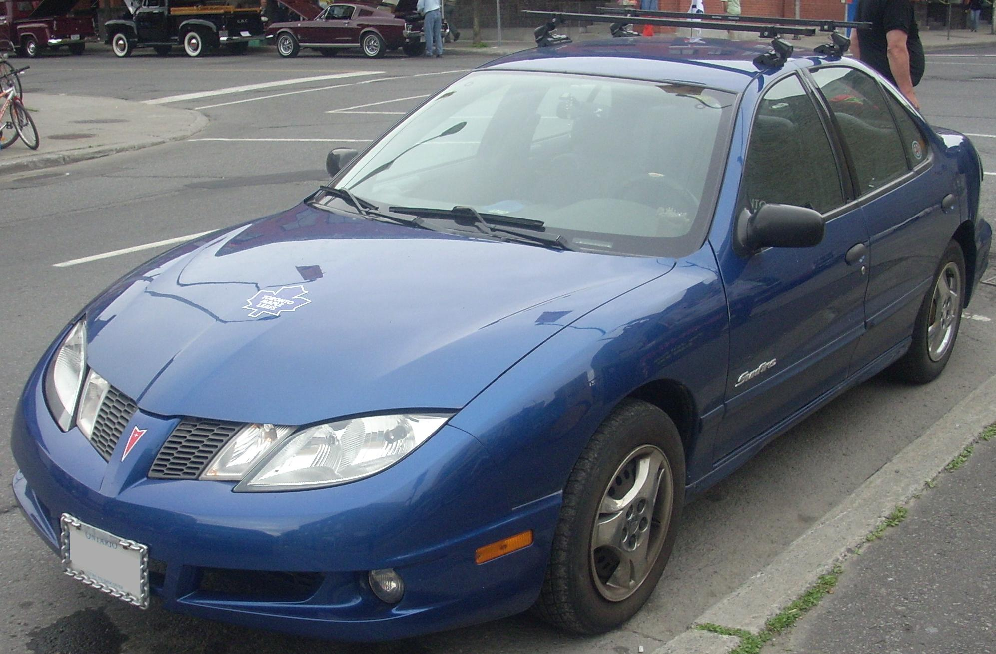 2003-2005 Pontiac Sunfire photographed in Ottawa, Ontario, Canada at the Byward Market Auto Classic 2009.